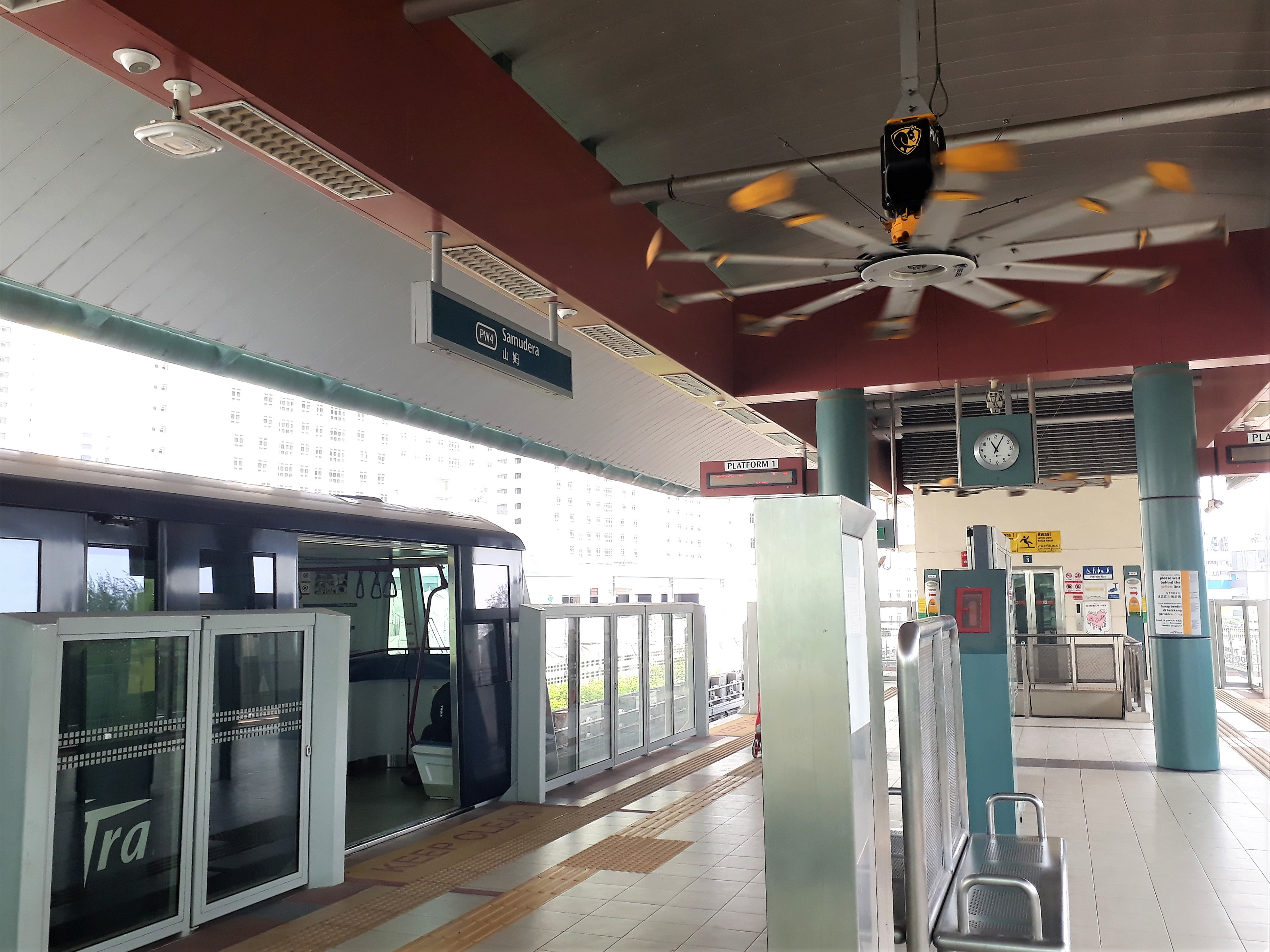 Samudera LRT station